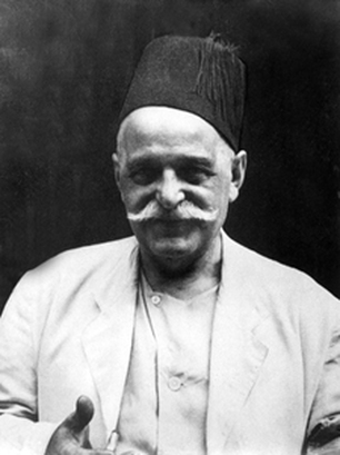 Georges Gurdjieff, head-and-shoulders portrait, facing front CALL NUMBER:LOT 13259, v. 21 no. 88c [P&P] DIGITAL ID:(b&w film copy neg.) cph 3e02223 CARD #:95510885 REPRODUCTION NUMBER:LC-USZ61-2223 (b&w film copy neg.)